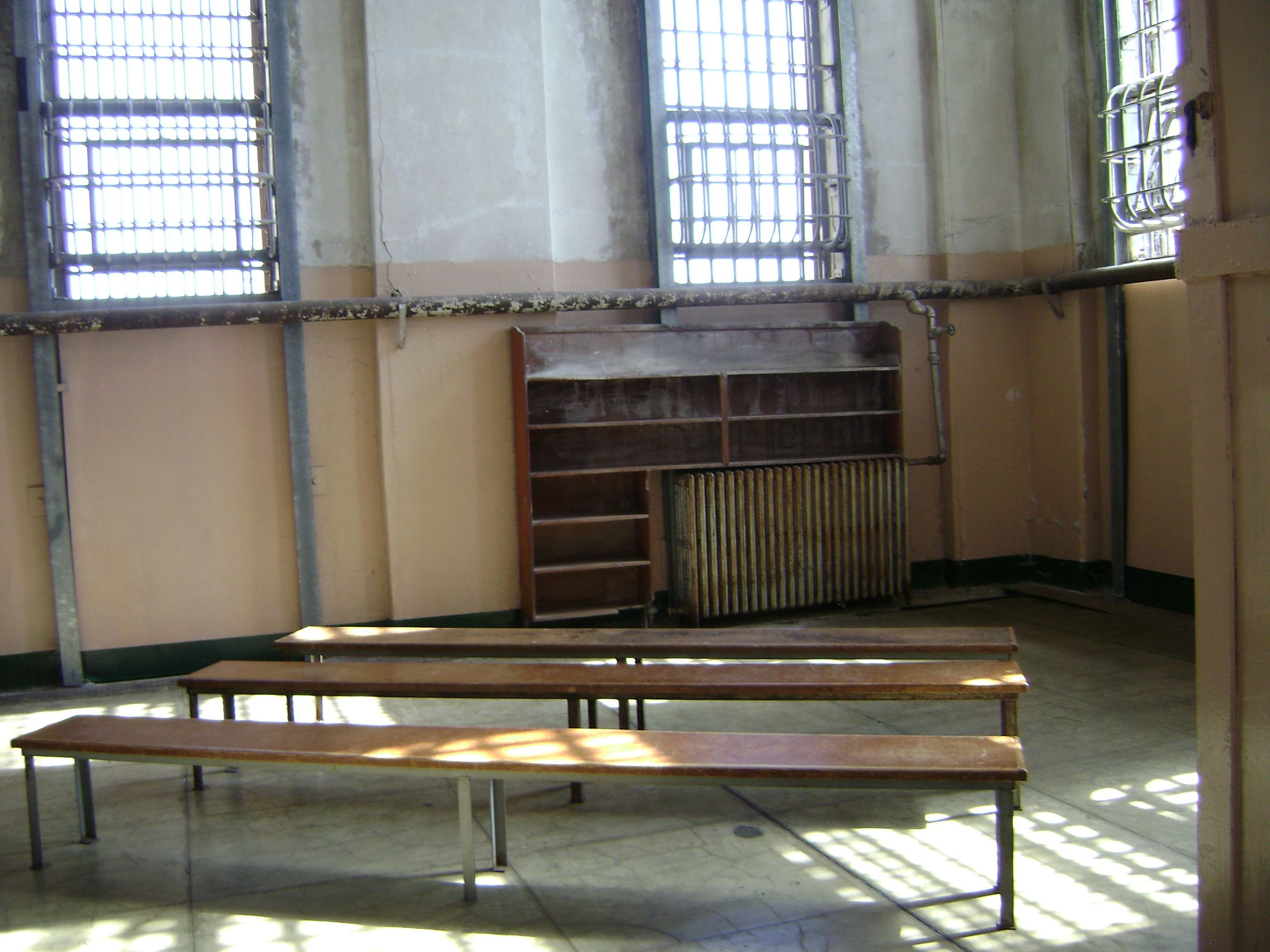 Alcatraz Island Library